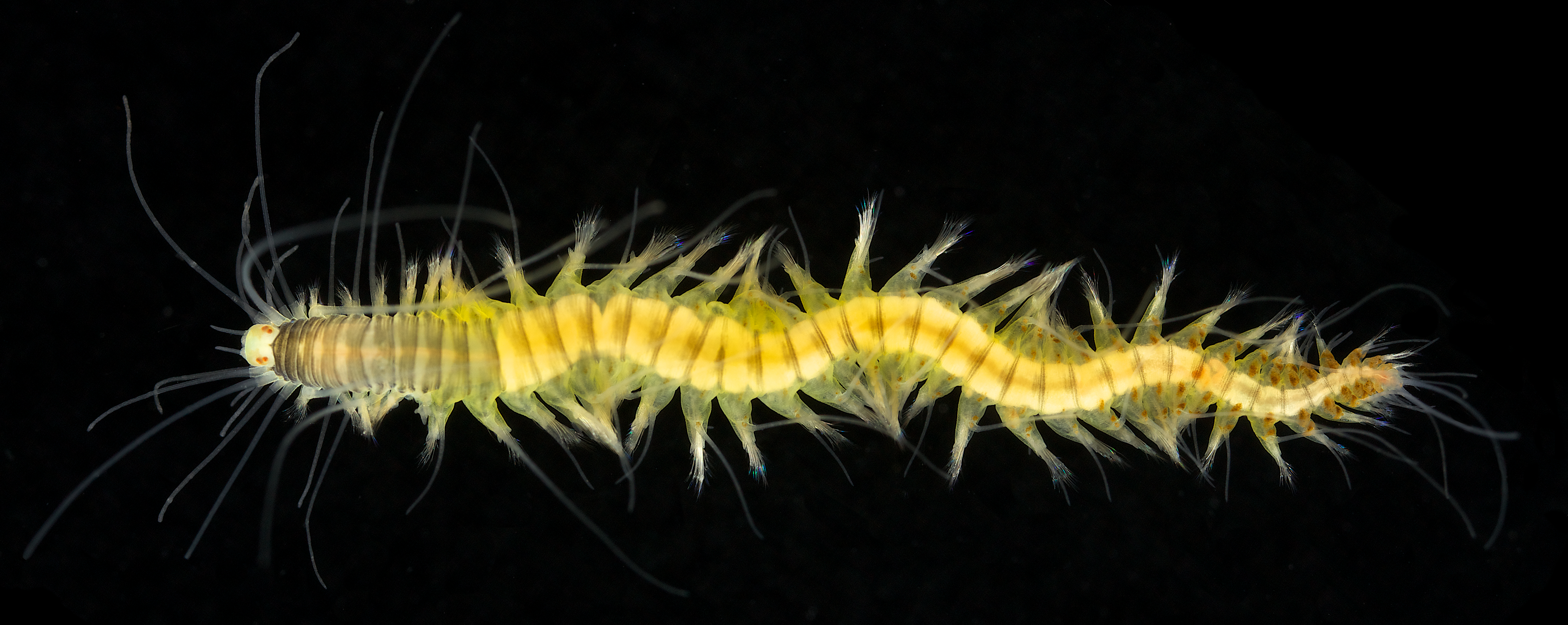 A slowly creeping Nereimyra punctata, ca. 1 cm in length. From the Barents Sea.